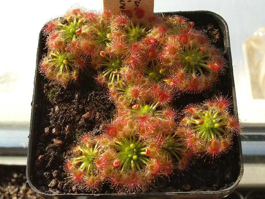 Drosera echinoblastus in cultivation